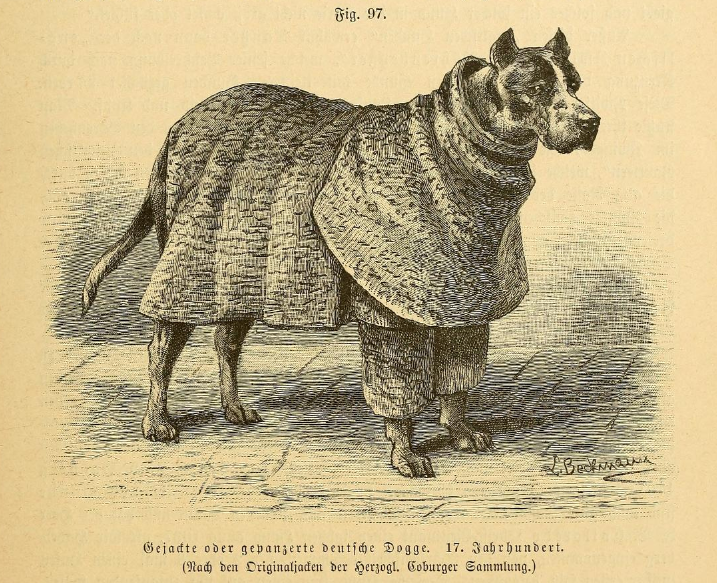 Caption: Clothed or armored German Dogge (Great Dane). 17th Century. ( [drawn] After the original jackets of the Herzogl. Coburger Sammlung.)